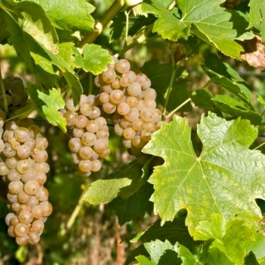 Solaris grape and leaf